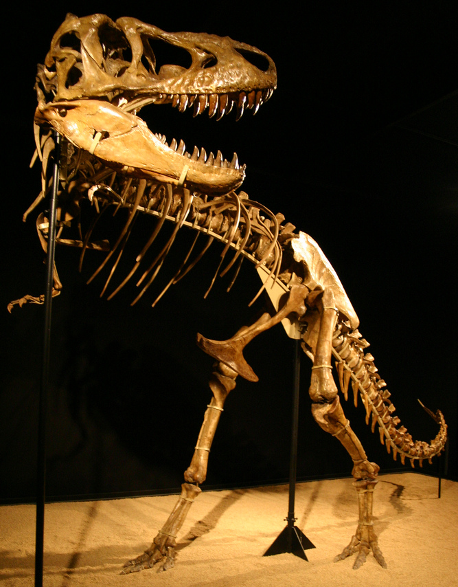 Tarbosaurus skeleton at the CosmoCaixa museum (Barcelona).